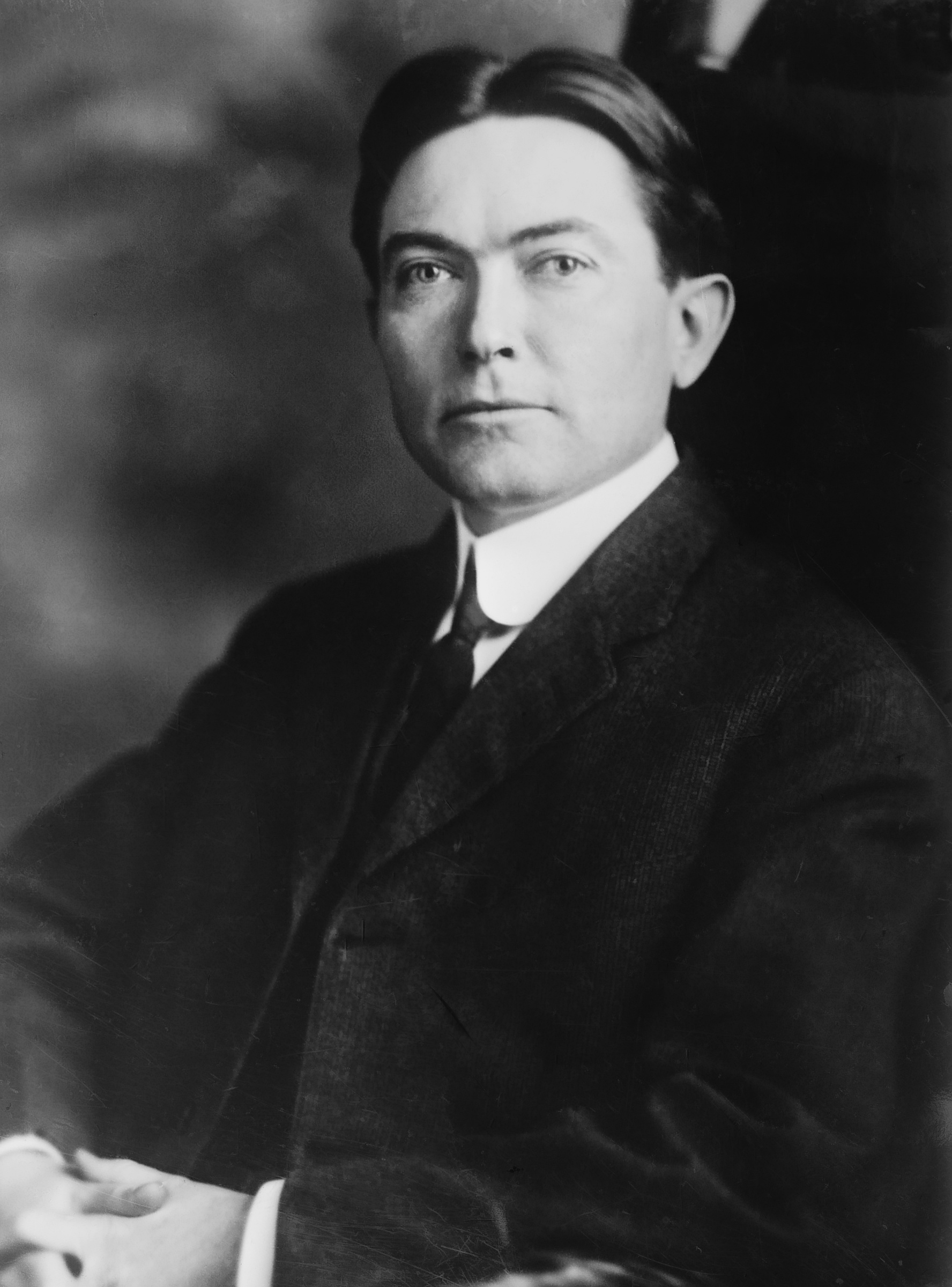 C. M. Galloway circa 1913 [no date recorded on caption card] 1 negative : glass ; 5 x 7 in. or smaller. Notes: Title from unverified data provided by the Bain News Service on the negatives or caption cards. Forms part of: George Grantham Bain Collection (Library of Congress). Format: Glass negatives. Repository: Library of Congress, Prints and Photographs Division, Washington, D.C. 20540 USA, General information about the Bain Collection is available at Persistent URL: Call Number: LC-B2- 2714-9